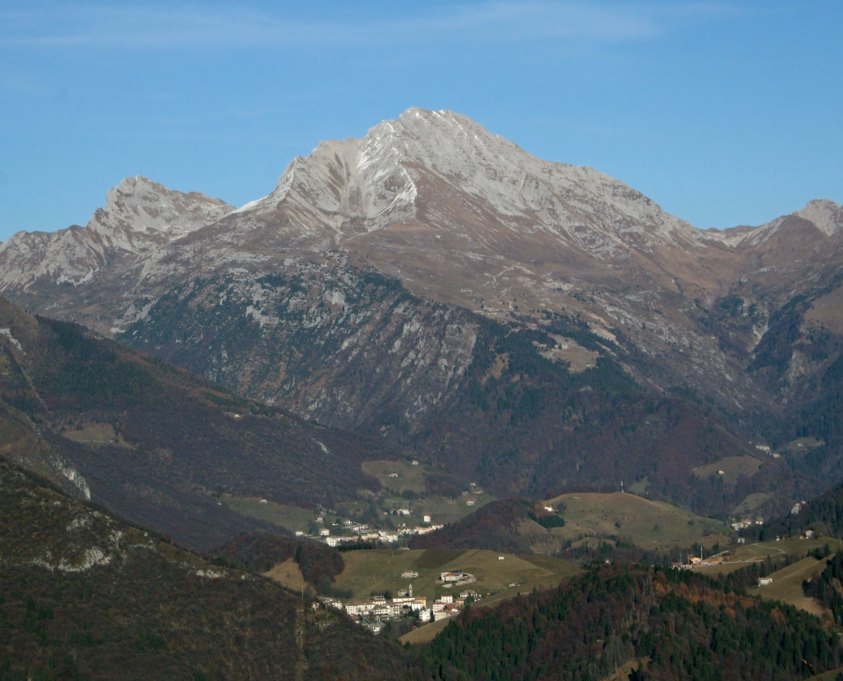 Pizzo Arera seen from Lepreno